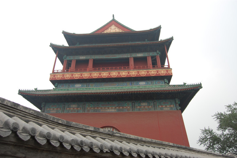 The Drum Tower of Beijing